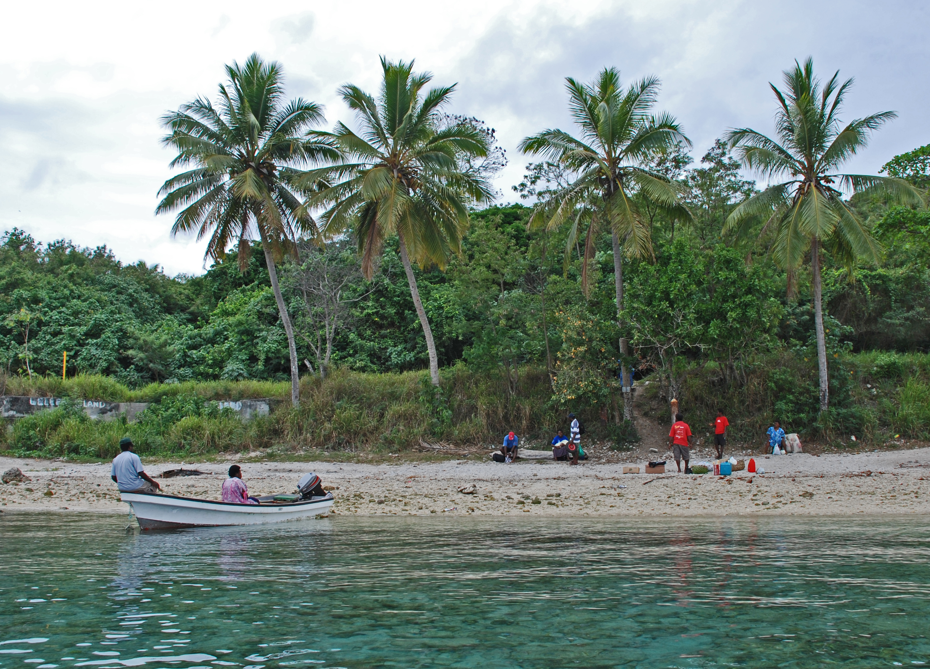 This is where ferries leave Efate for Lelepa Island. There is no wharf here or on the island. Everything that comes or goes has to be able to fit on boats that can beach here.